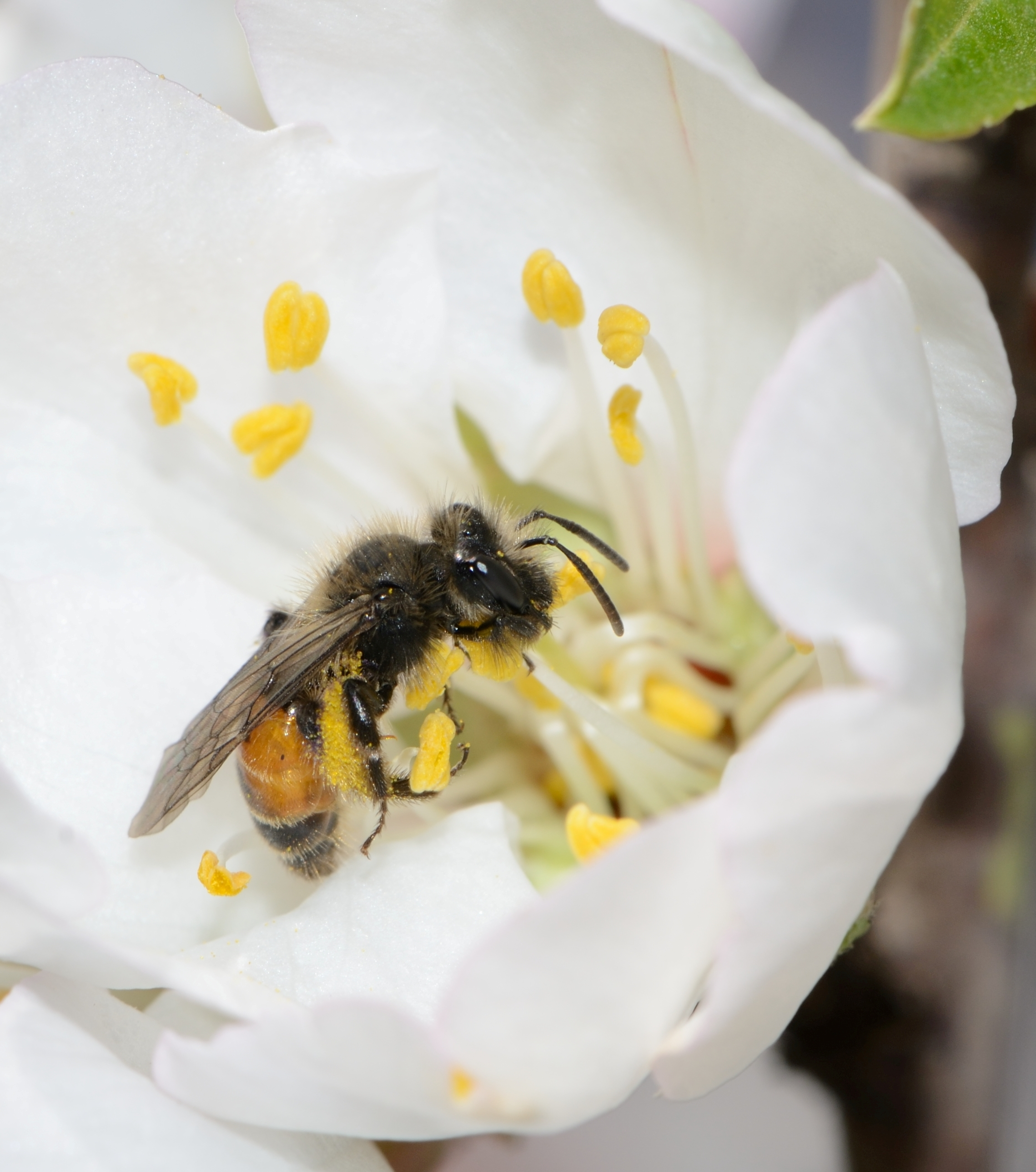 Andrena (Margandrena) krausiella Gusenleitner 1998, female foraging on almond, Nahshon, Judean Foothills, Israel, February 9, 2012.